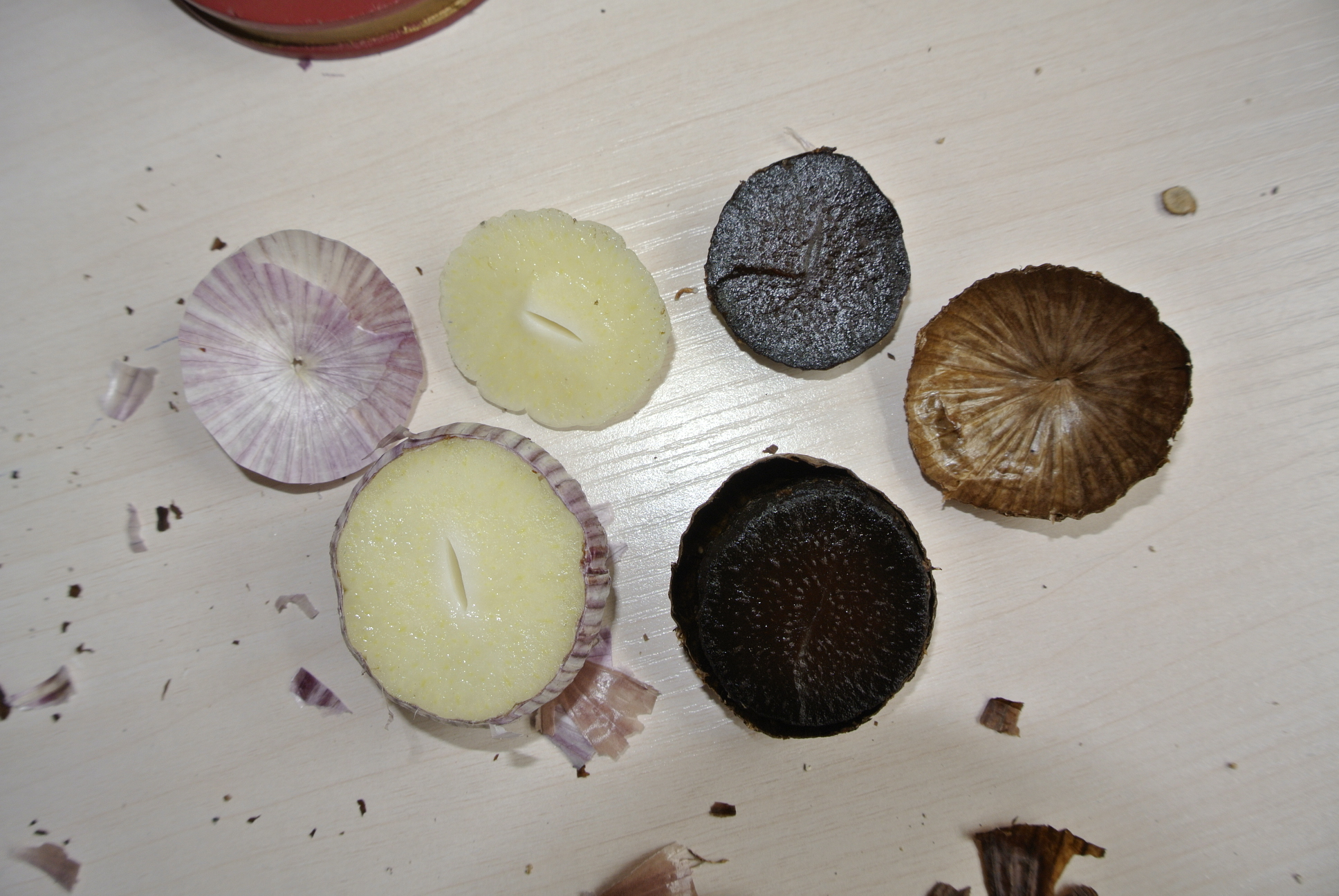 One clove black garlic is produced by fermentation